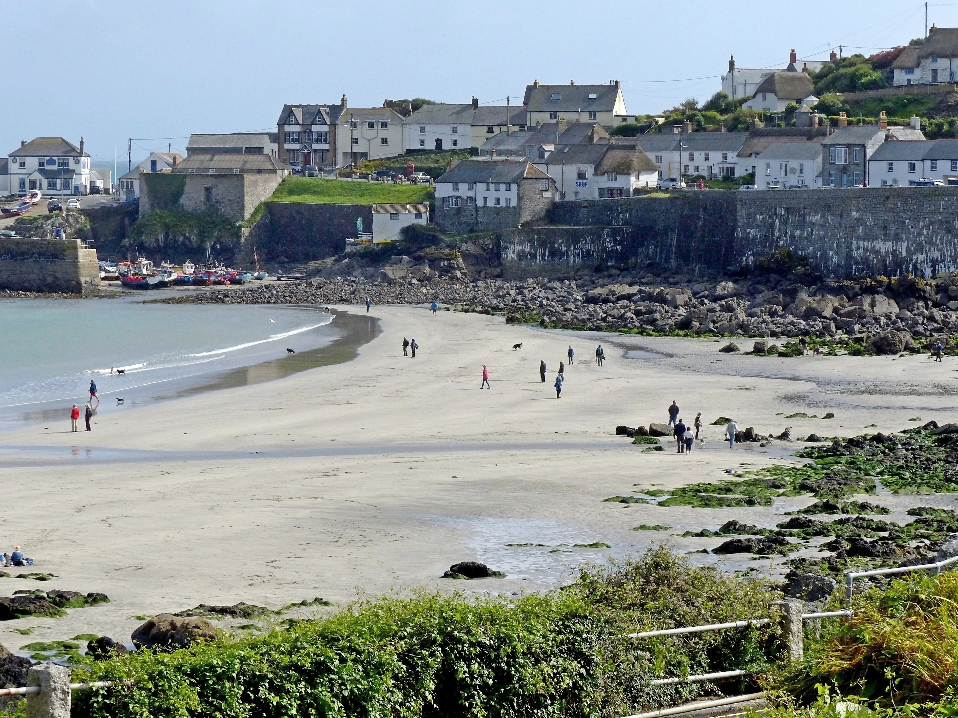 Coverack in Cornwall, England, looking towards the harbour. Coverack is on the Lizard peninsula.